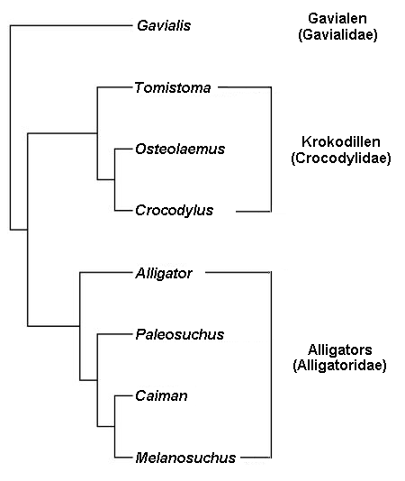 Cladogramm of the taxon Crocodylidae, made with the open source program TreeView, GFDL